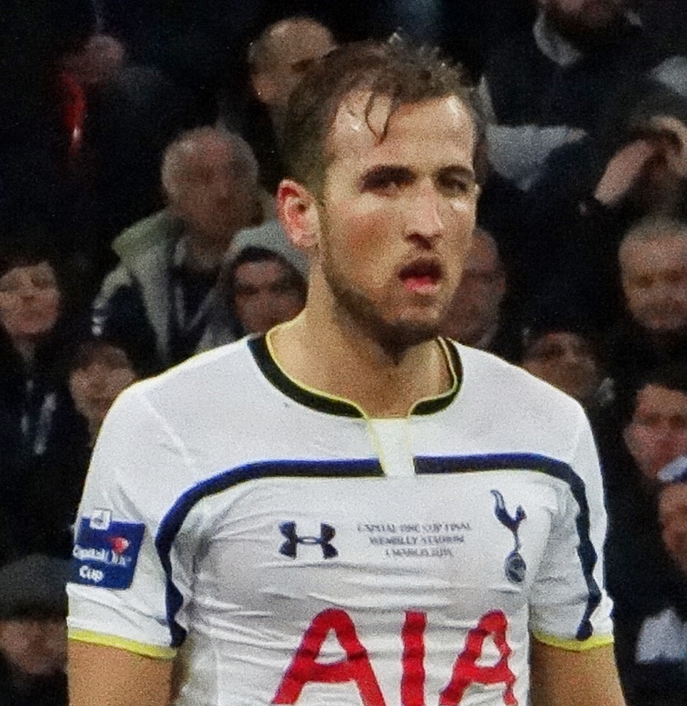 Harry Kane